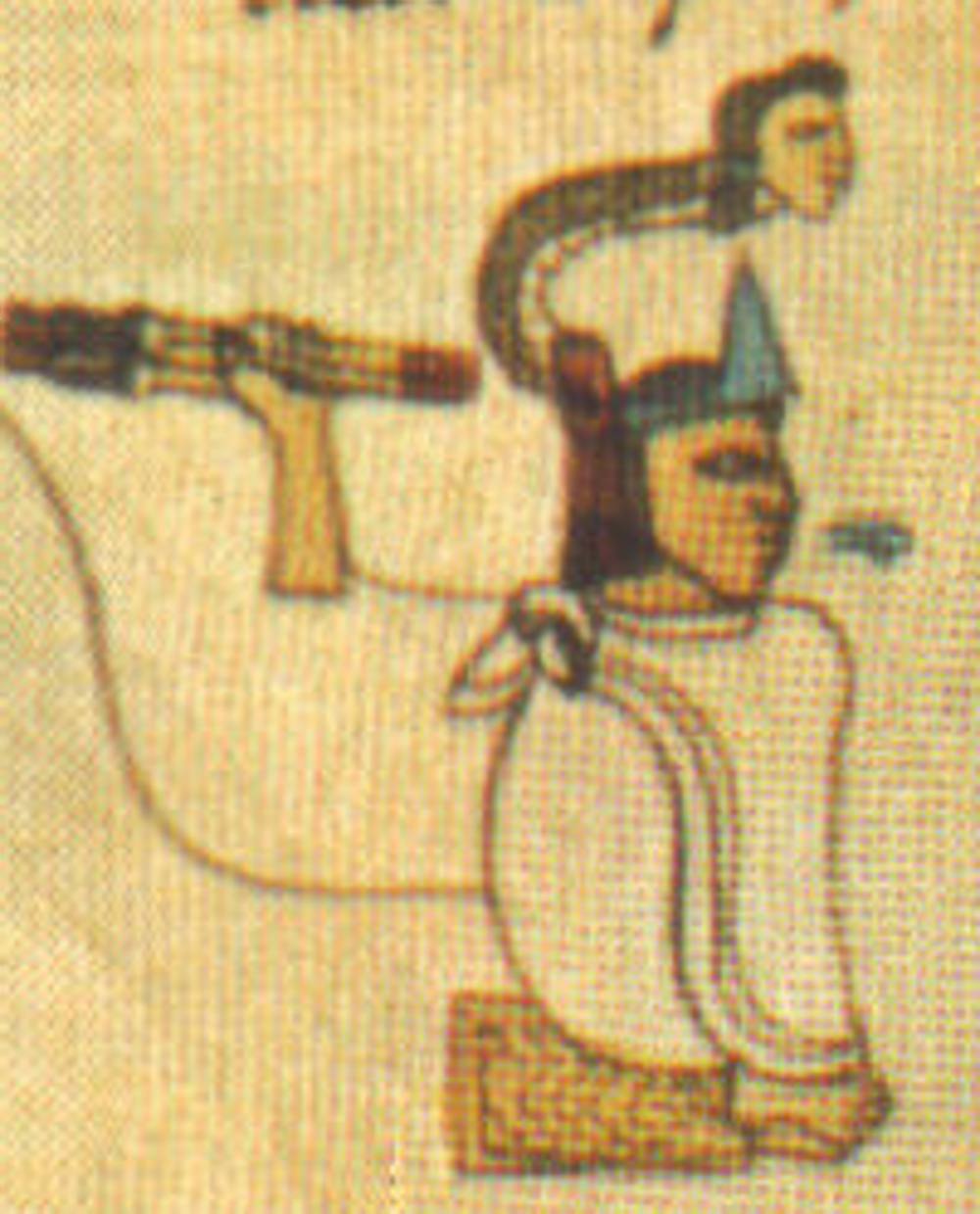 Detalle del Codice Mendoza